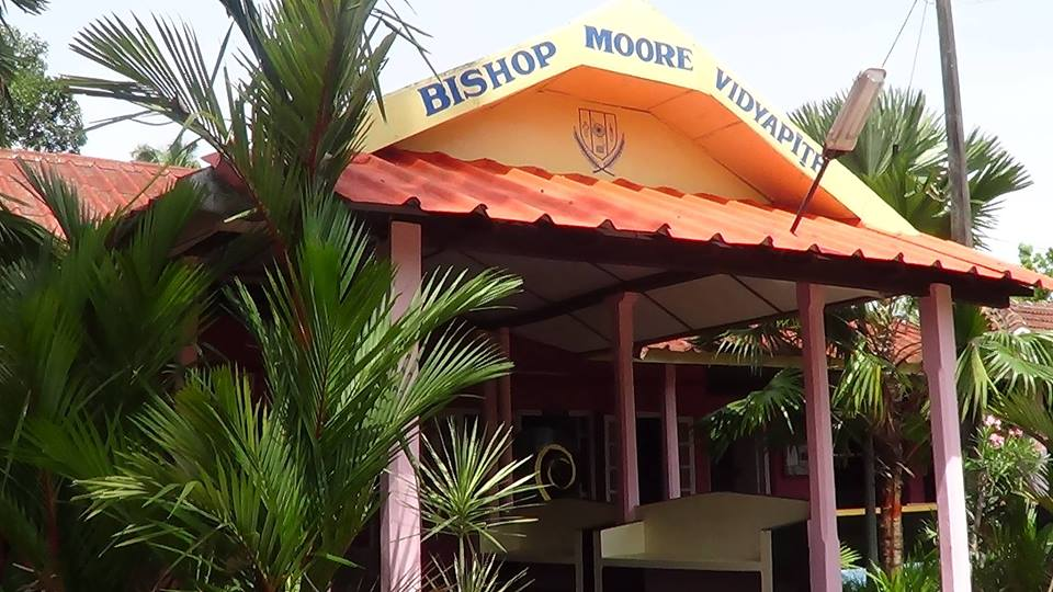 Entrance of BMVC